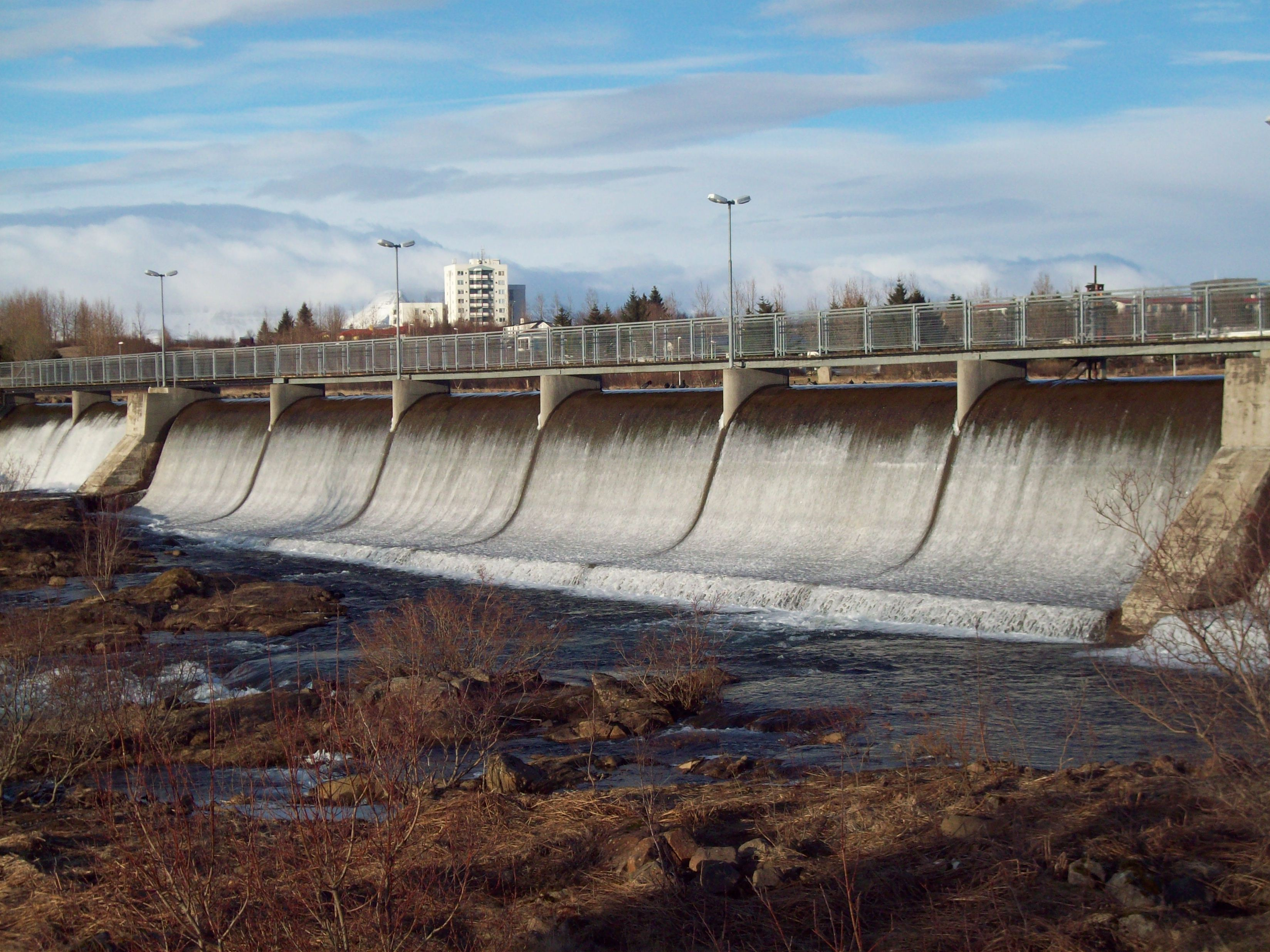 Elliðaár Dam